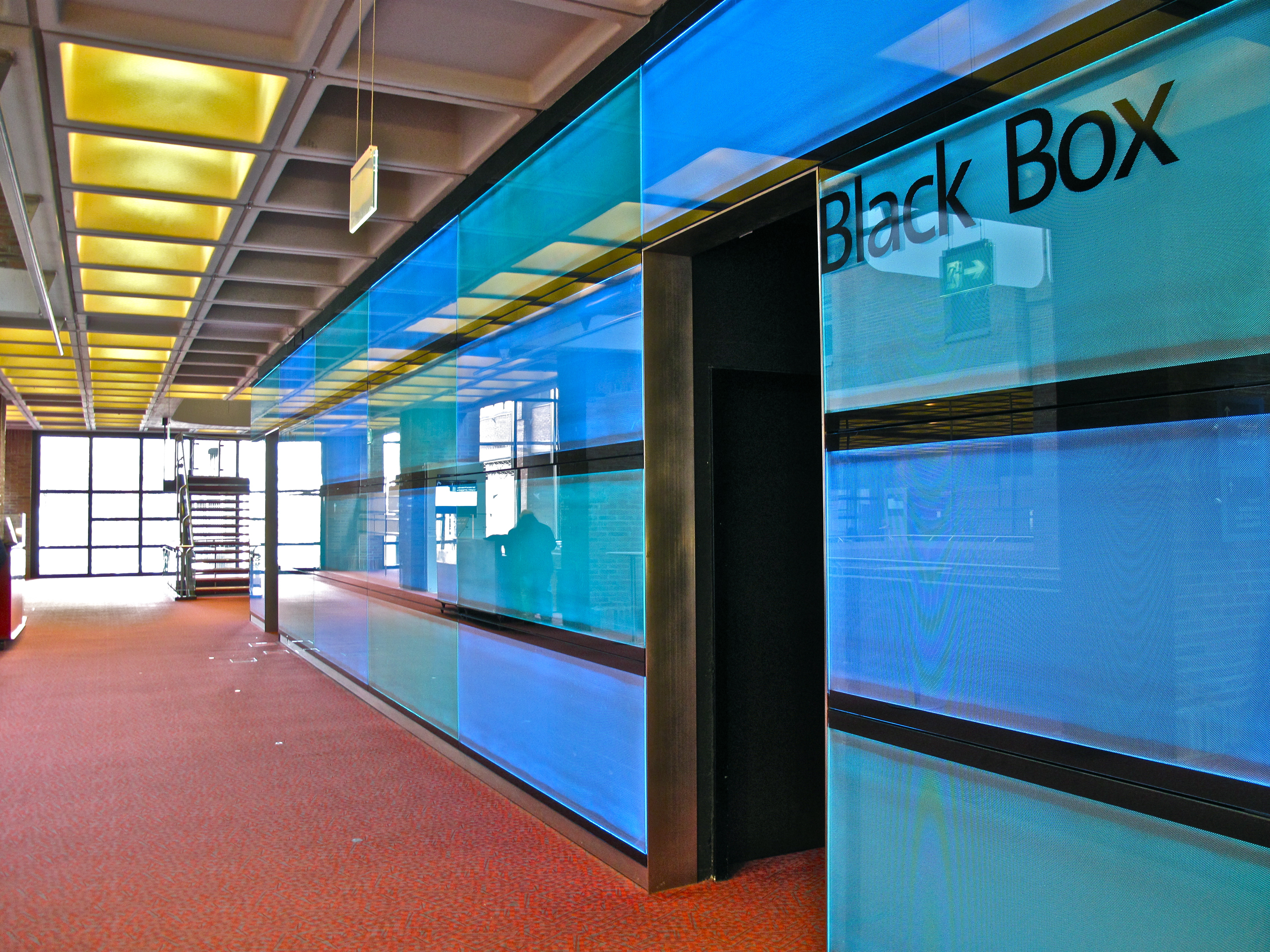 The Black Box (hall for theatre, music, lectures, films etc. for up to 249 people) in the Gasteig – the cultural centre of the city of Munich.